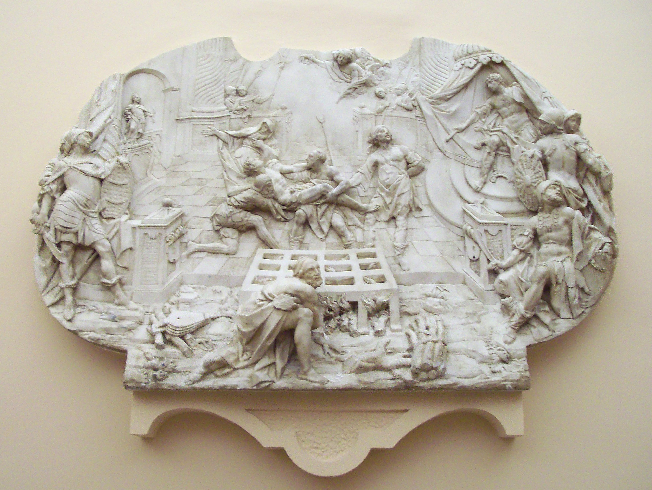 Relief sculpted to adorn the main corridor of Madrid's Royal Palace. Emperor Valerian is represented at the right.